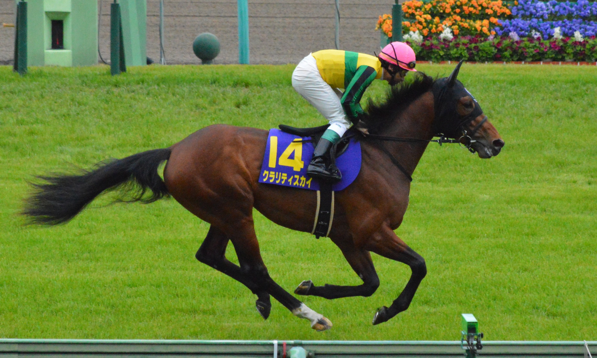 Japanese race horse Clarity Sky at Nakayama racecourse. Nakayama (JPN) 19 Apr 2015Satsuki Sho (Japanese 2000 Guineas) (Grade 1) (3yo Colts & Fillies) (Turf) 1m2f Firm RankHorse NameOddsAgeWgtTrainerJockey1stDuramente (JPN)18/5C39-0Noriyuki HoriMirco Demuro2ndReal Steel (JPN)14/5C39-0Yoshito YahagiYuichi Fukunaga3rdKitasan Black (JPN)87/10C39-0Hisashi ShimizuSuguru Hamanaka4th, 6th-17th/omission5thClarity Sky (JPN)51/1C39-0Yasuo TomomichiNorihiro Yokoyama